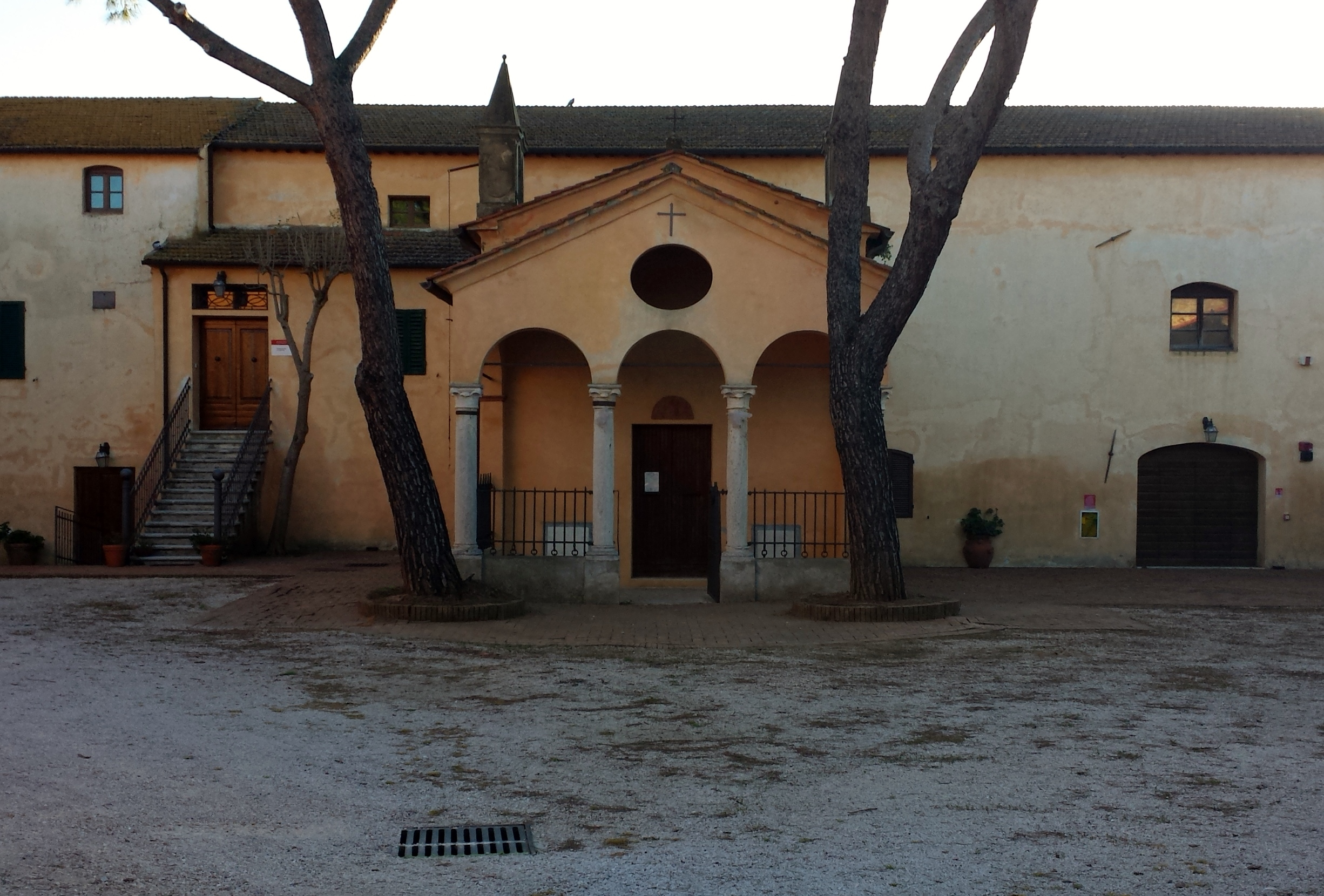 Chapel of Santa Maria in Grancia, Grosseto